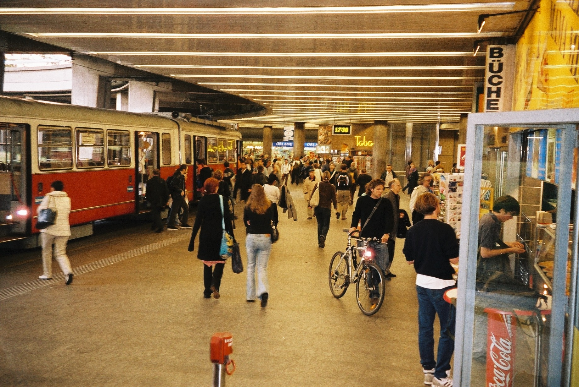 The "Jonas-Reindl", a two-storey tram station next to the University of Vienna's main building